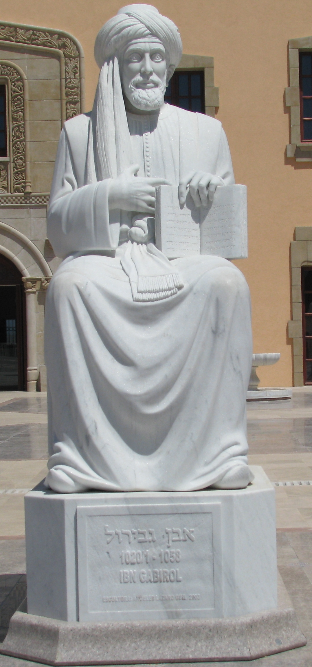 Shlomo Ibn Gabirol statue in Caesarea, Israel.